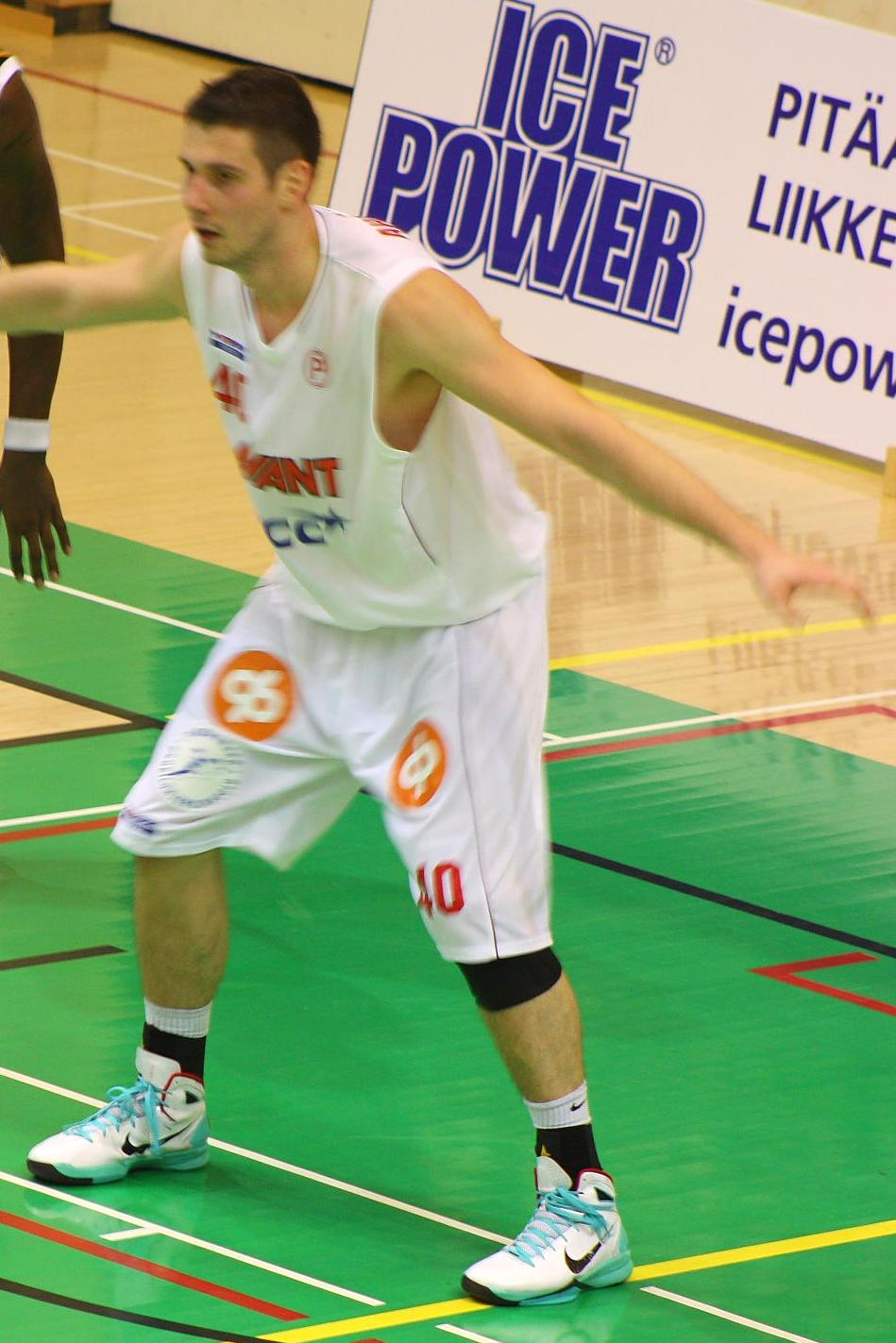 Basketball player Olli Ahvenniemi playing for Pyrintö against Karhu